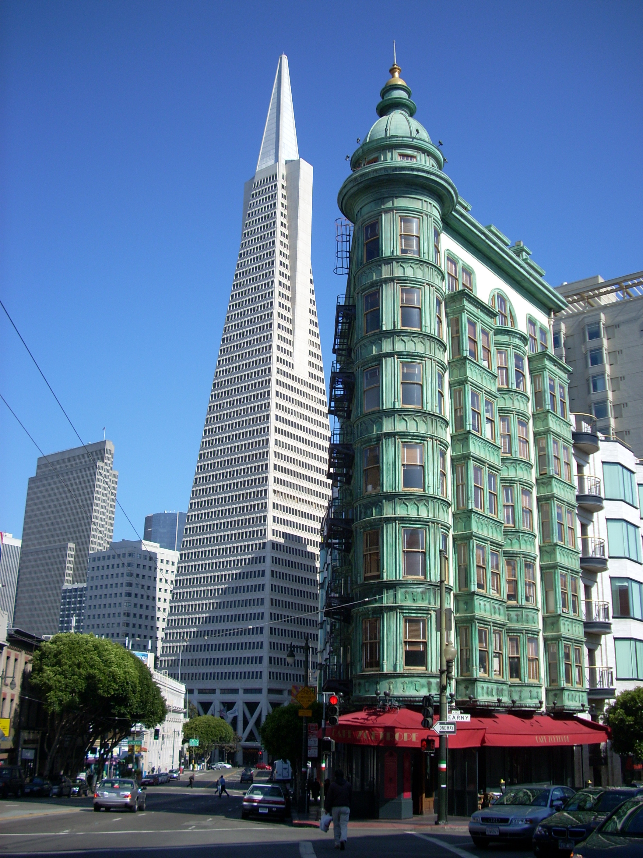 American Zoetrope is located in the Sentinel Building. The Transamerica Pyramid is in the background.